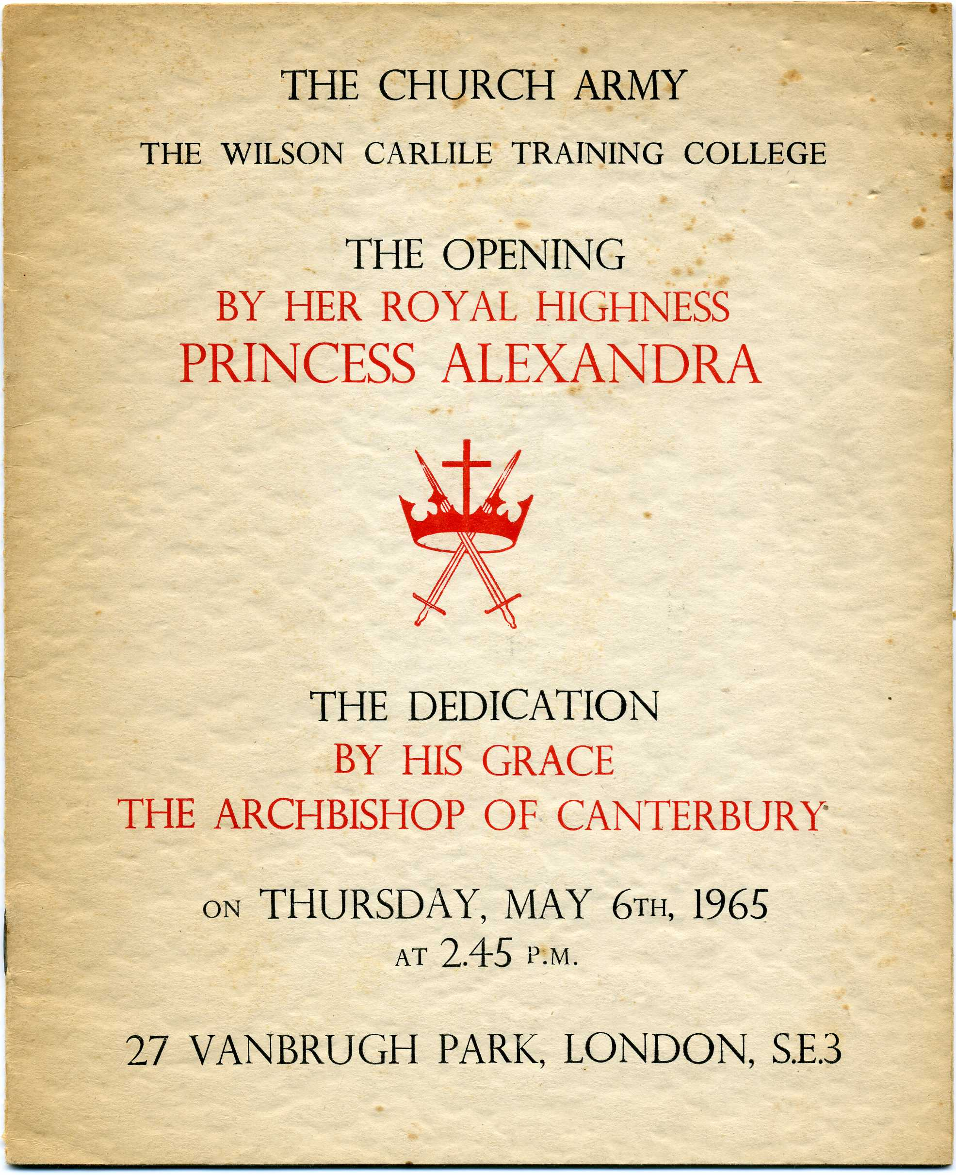 Cover of programme for the opening of the Church Army Chapel at Blackheath, London, England. Opened by Princess Alexandra and consecrated by Michael Ramsay on 6 May 1965. From the archives of E.T. Spashett ARIBA who designed the chapel for Austin Vernon & partners.